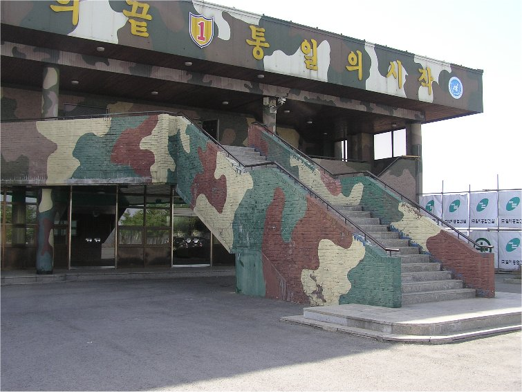 The building at Dora Observatory.